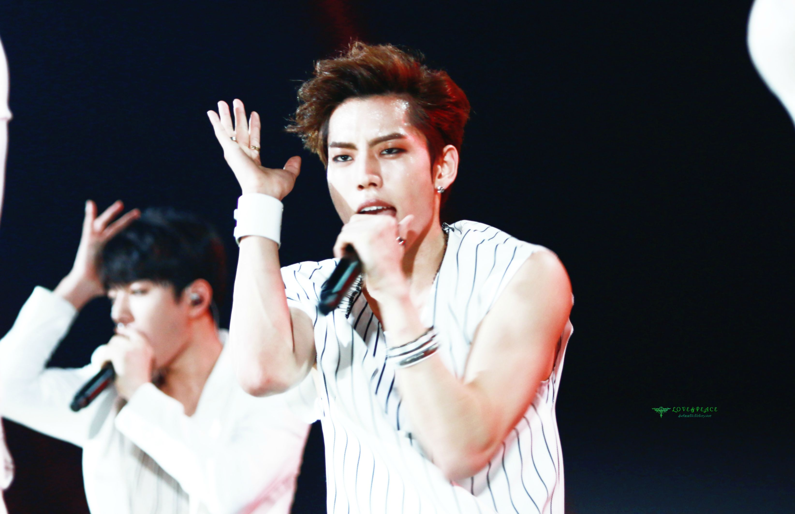 Infinite performing at KCON 2015 at the Saitama Super Arena on April 22, 2015.